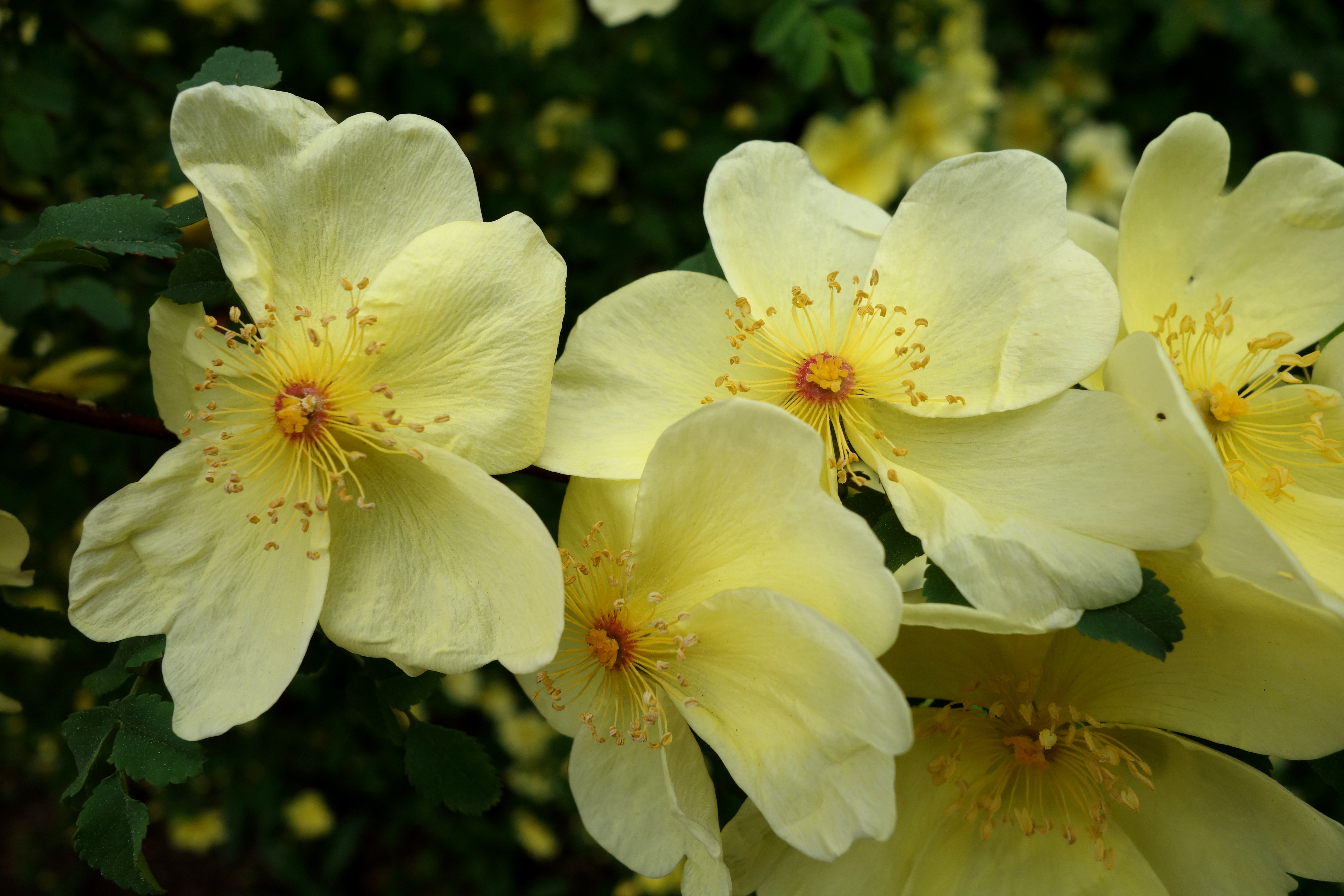 Botanical specimen in the Morris Arboretum, 100 East Northwestern Avenue, Chestnut Hill, Philadelphia, Pennsylvania, USA.